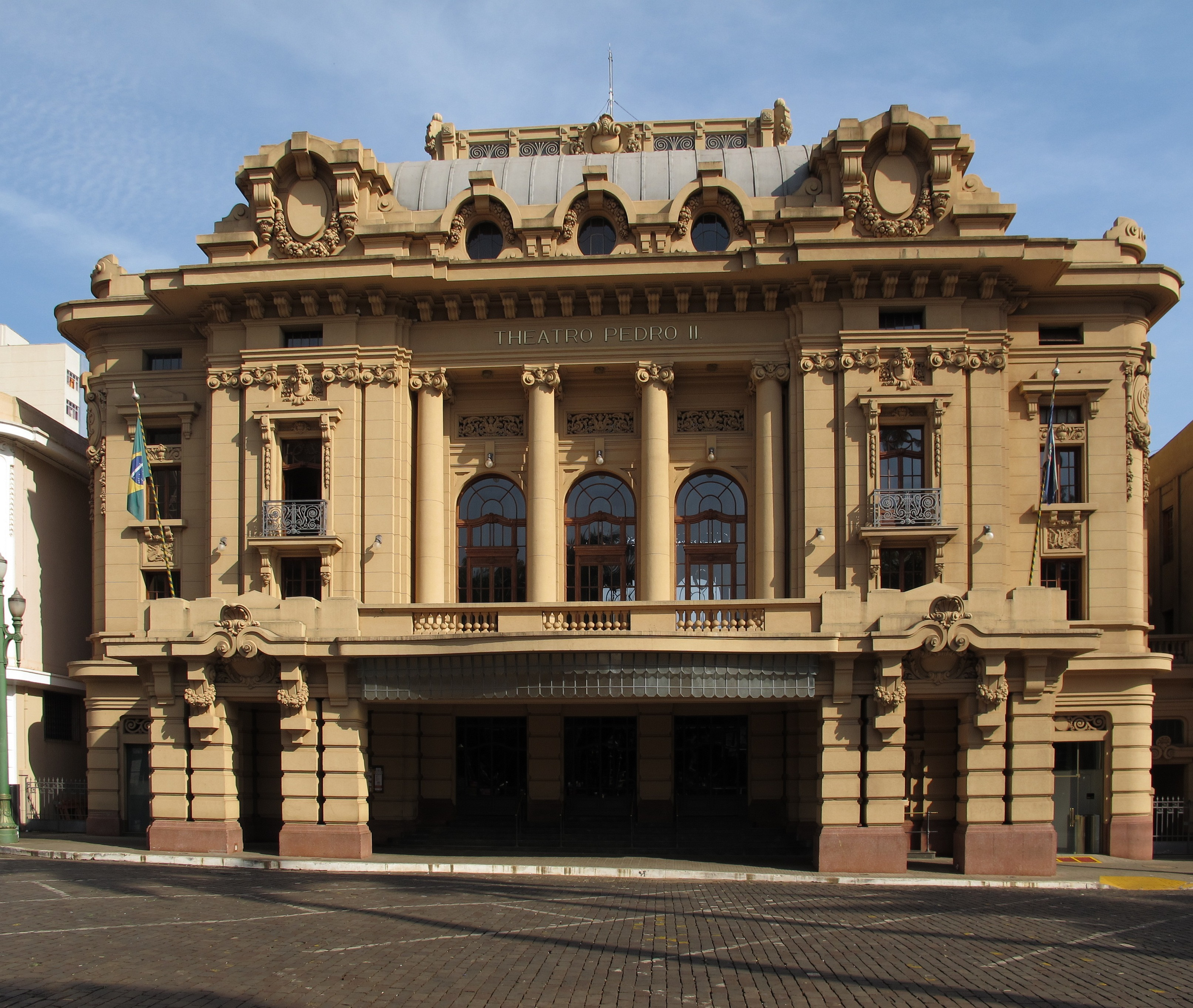 Theatro Pedro II